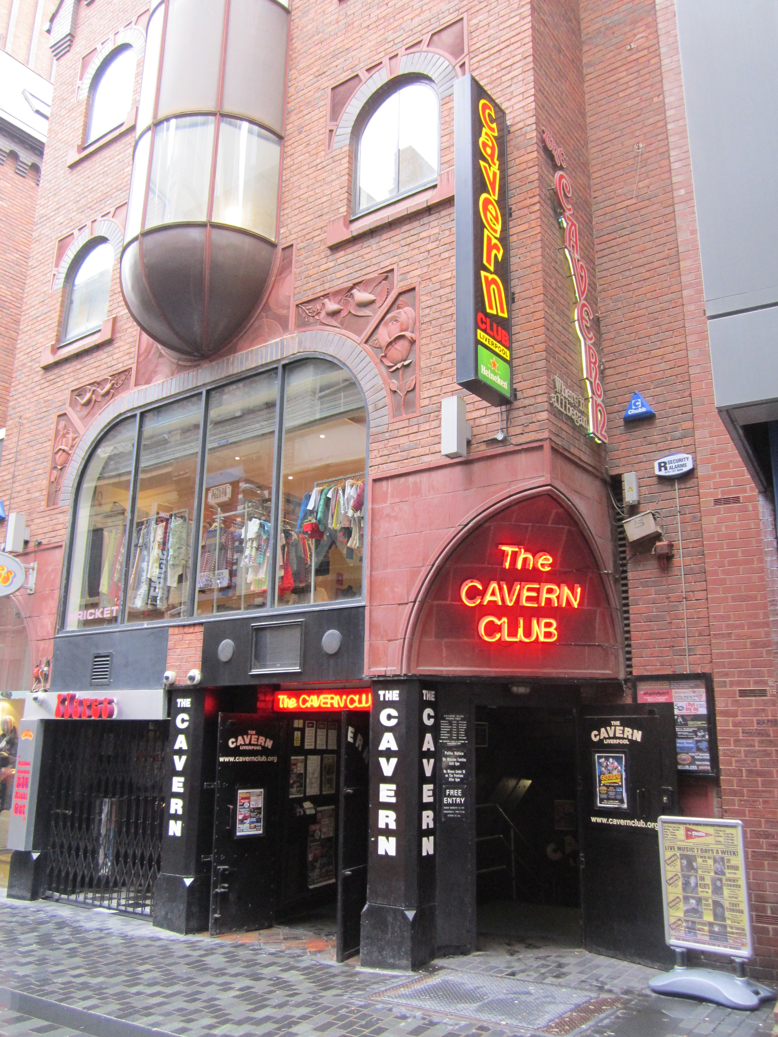 Cavern Club, Liverpool, England.